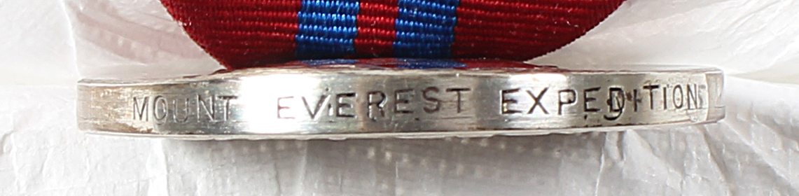 The Coronation Medal 1953 In Royal Mint card box of issue Rim impressed- Mount Everest Expedition